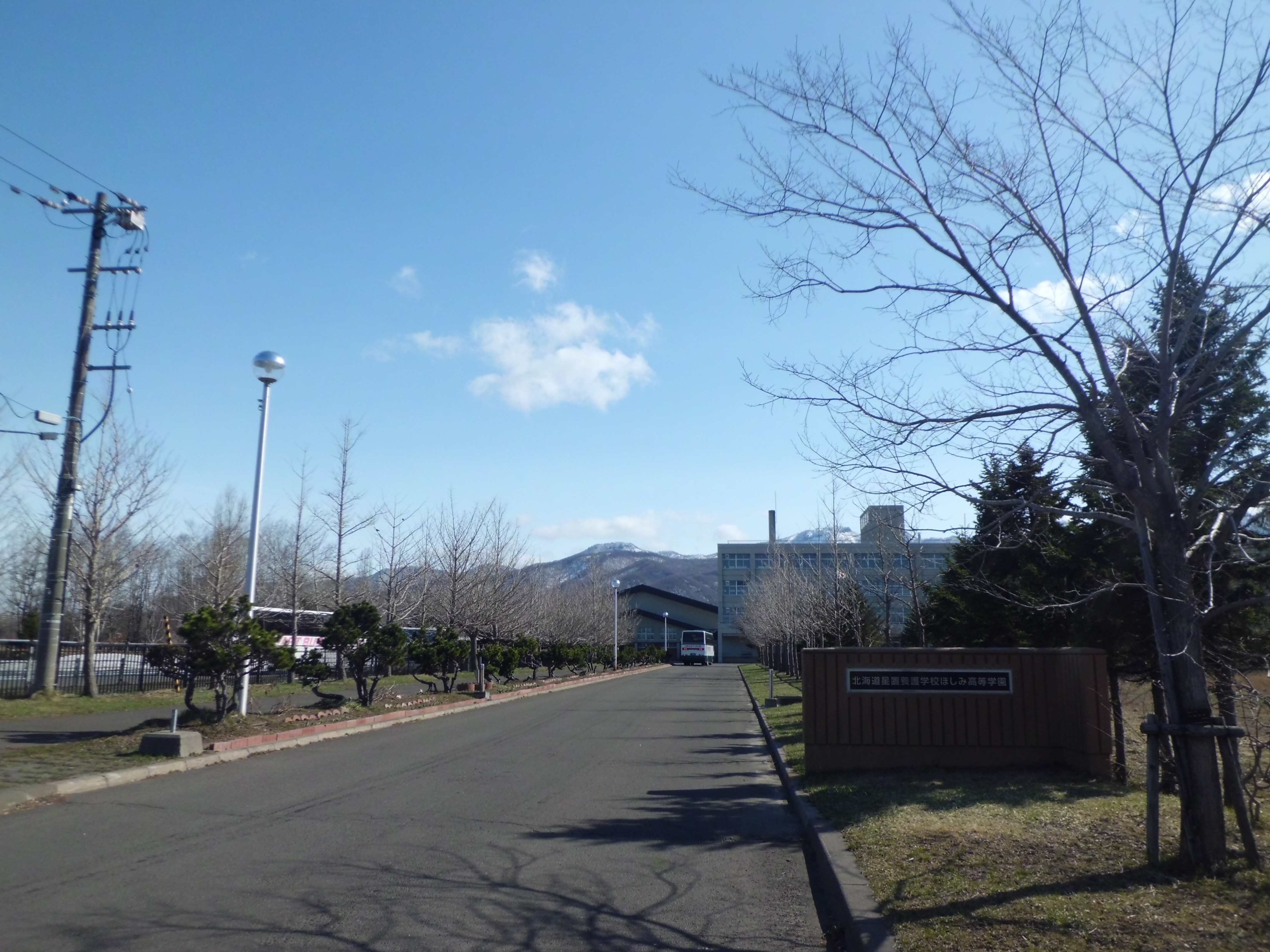 Hoshimi High School for Special Needs; Hokkaido Hoshioki School for Special Needs Affiliated.